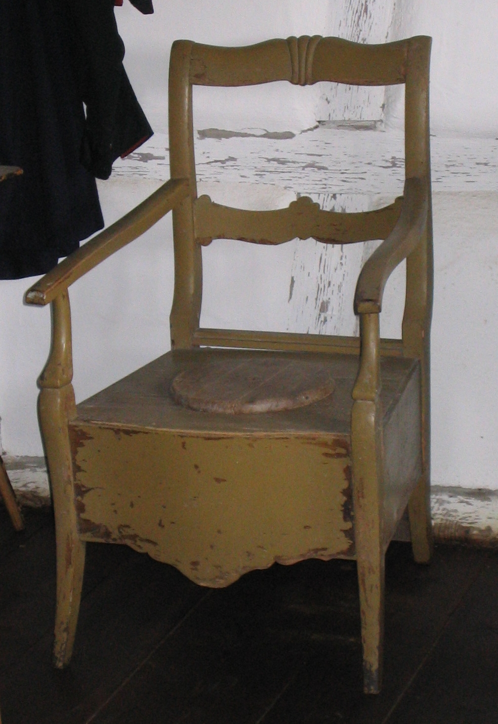 Close stool, Freilichtmuseum Neuhausen ob Eck, Germany.